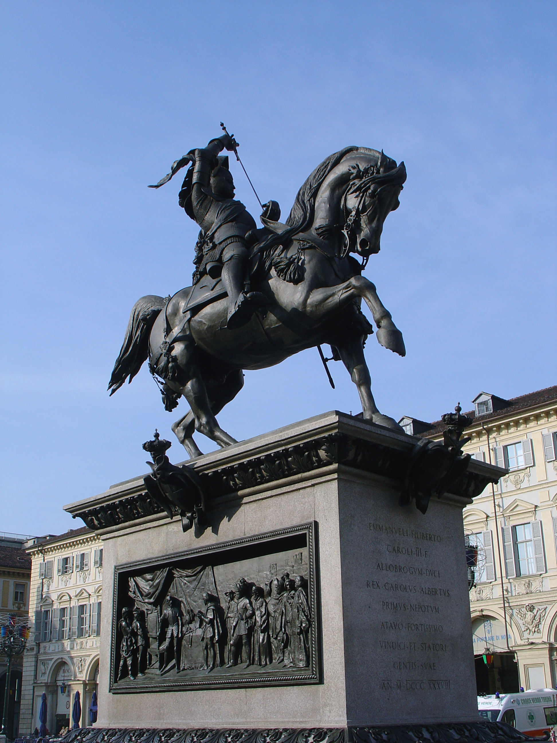 Monument in honour of Emanuele Filiberto of Savoy, situated in Piazza San Carlo at Turin.